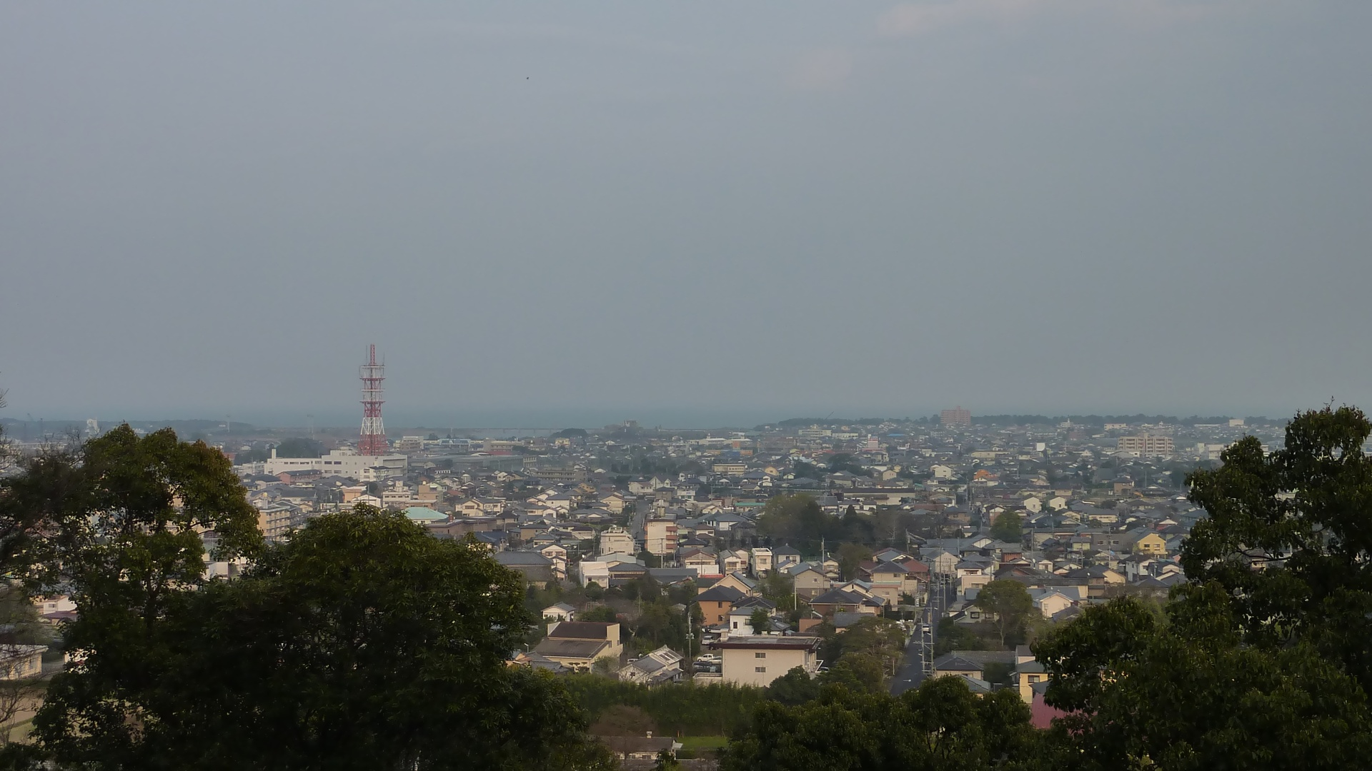 Central Takanabe Town, Miyazaki Prefecture, Japan